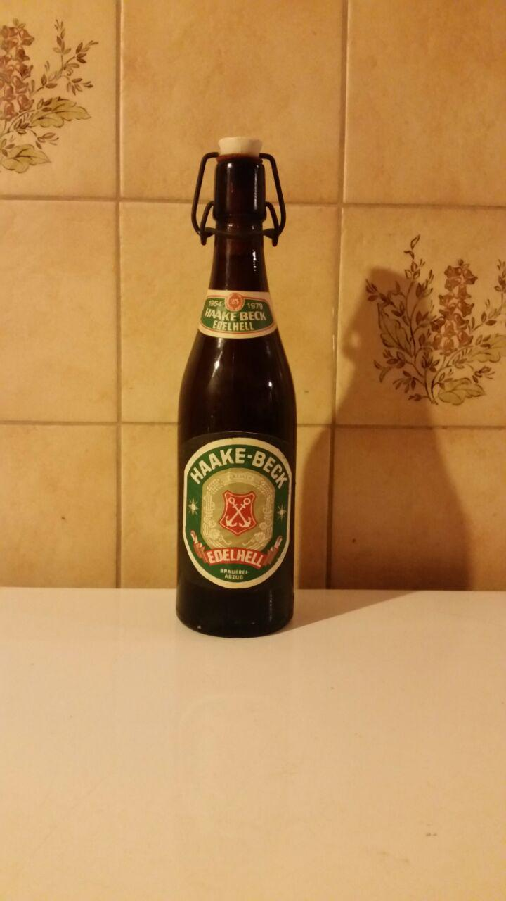 Haake-Beck Edelhell-Bottle from 1979